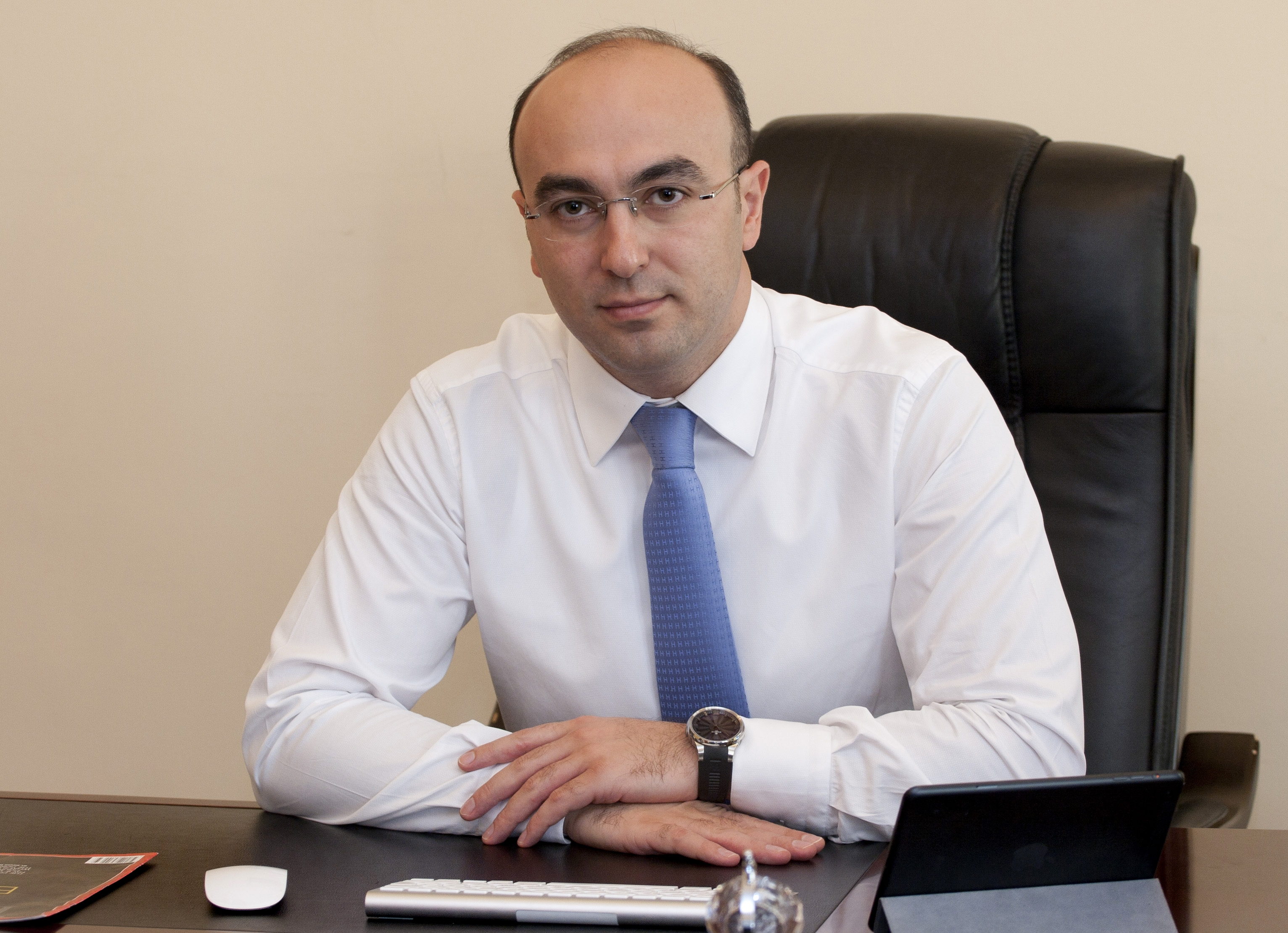 Dr. Elnur Aslanov, an Azerbaijani political scientist and author, businessman